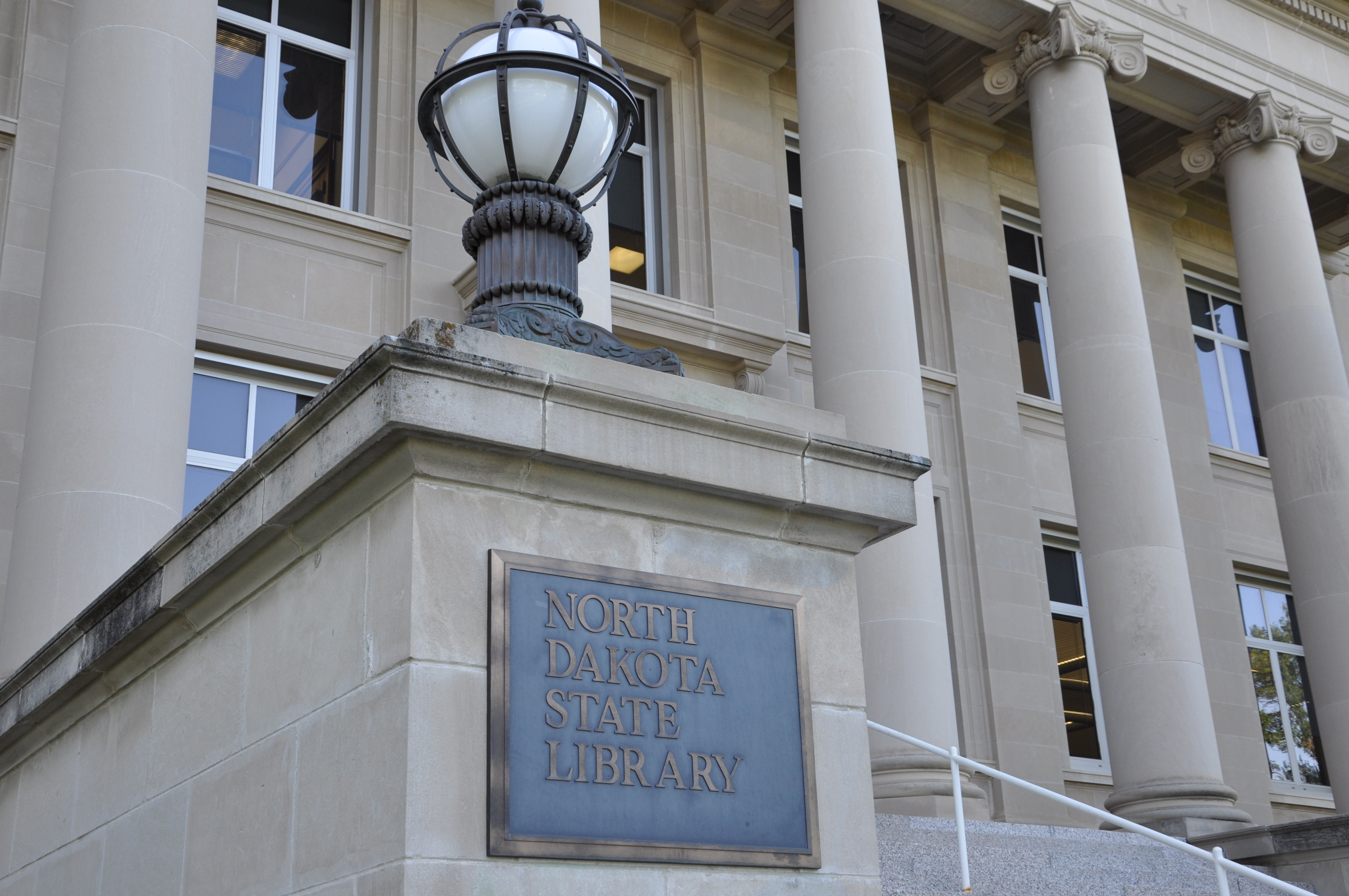 Entrance of the North Dakota State Library in 2012